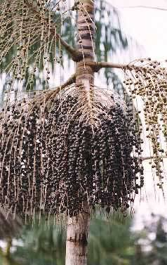 Açai fruit.